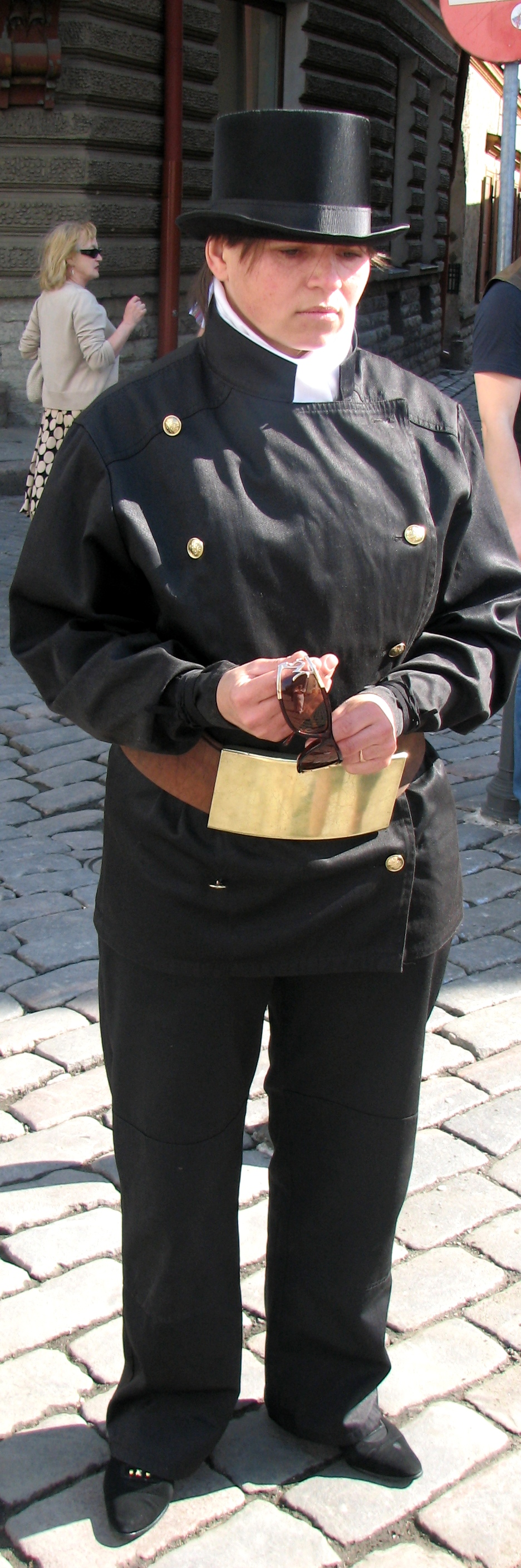 Female chimney sweeper in Tallinn's day